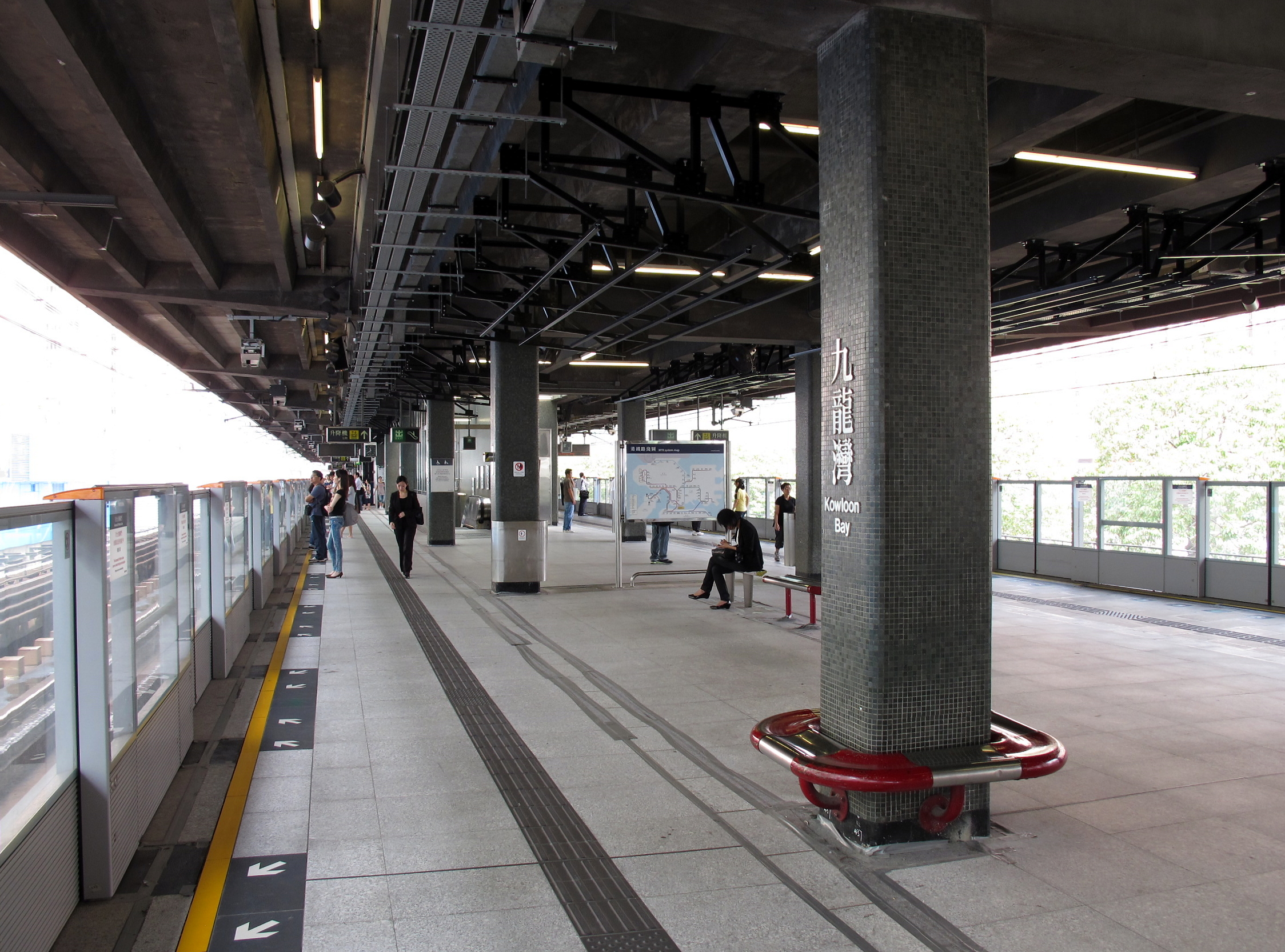 Kowloon Bay Station Platform